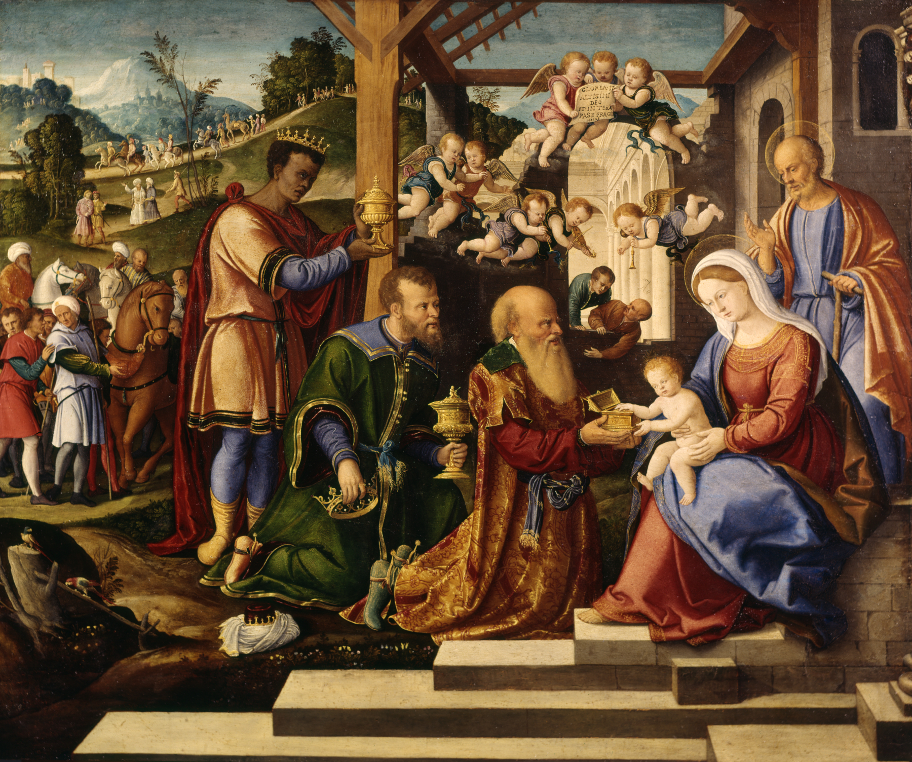 Three wise men, or magi, from the East are described in the Gospels as having seen a new star and journeyed to pay tribute to the child marked as divine by the heavens. The wise men were often depicted as kings, and, by the Renaissance, the youngest was frequently depicted as an African, here holding a gold vessel containing myrrh, a precious resin from Arabia and Africa used for perfume. His portrayal reflects both the ethnic diversity encountered by Renaissance painters in a port like Venice, frequented by African traders, and also the concept of Christ's promise of salvation for all people. The splendor of the kings contrasts with the simplicity of the Holy Family. Chubby little angels sing the words inscribed on the scroll "Glory to God in Heaven and Peace to Men on Earth," accompanied by others playing flutes and a violin.